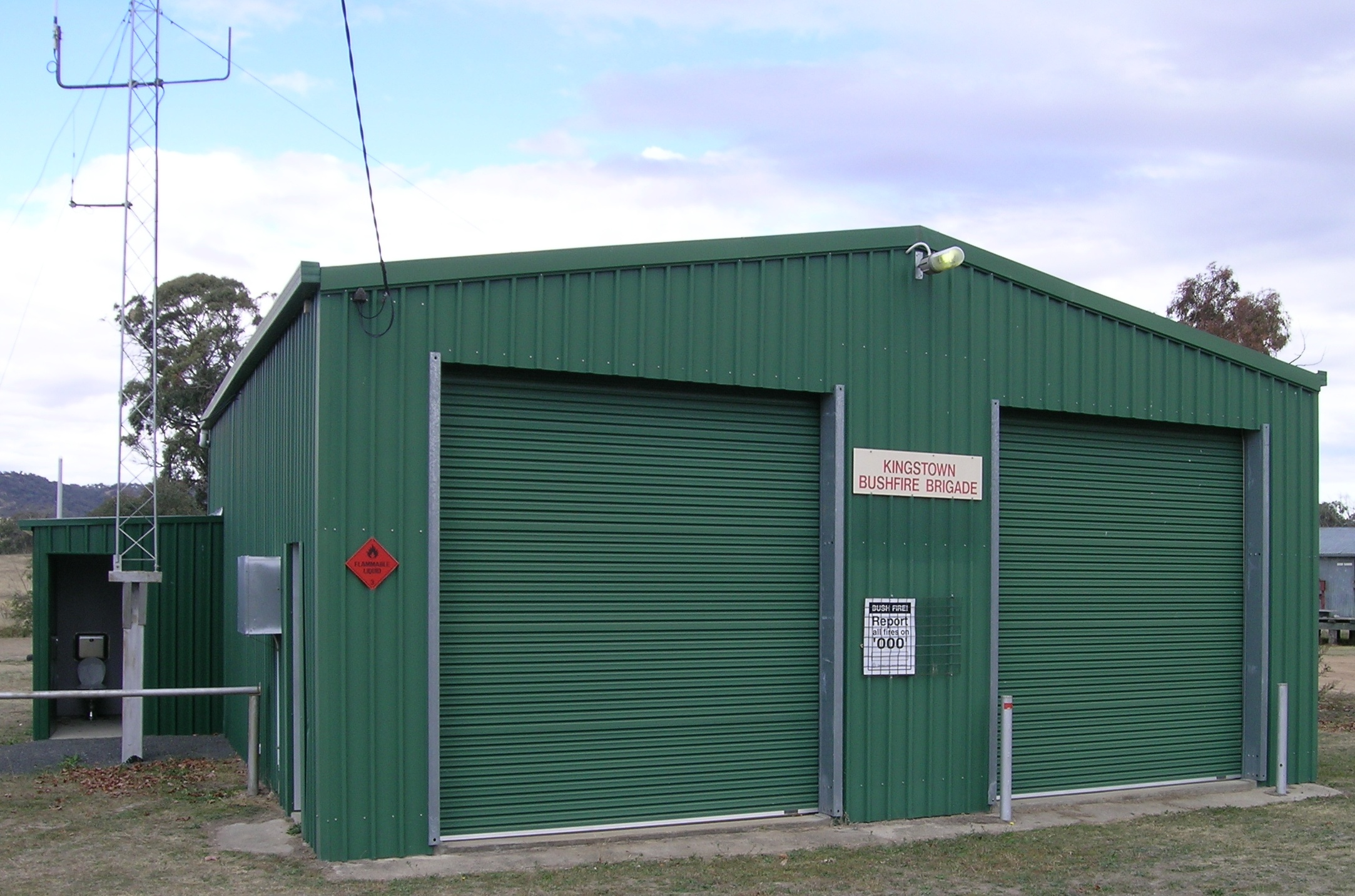 The toilet that was eventually granted to Kingstown, after a campaign gained 200 signatures; and the RFS building.